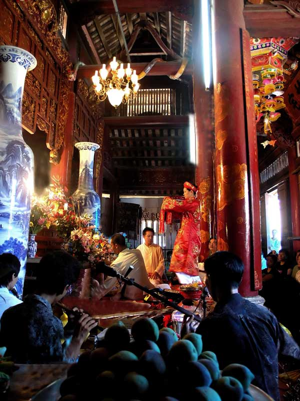 Len Dong Dance, in a pagoda in Vietnam. There are 12 changes of clothing,with change of personality at the same time. It is rare for the Len Dong to be a young woman (32 years old), most are men